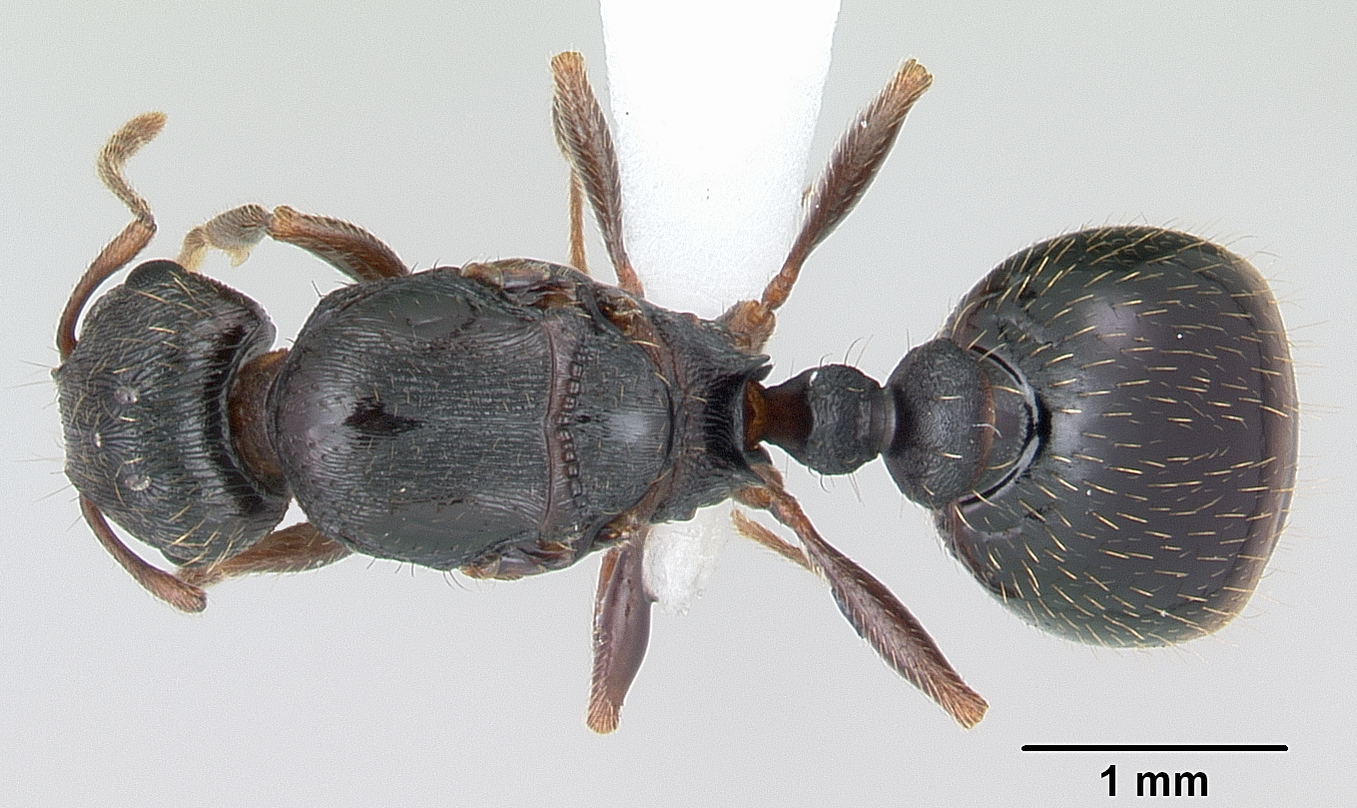 Dorsal view of ant Tetramorium tsushimae specimen casent0103103.